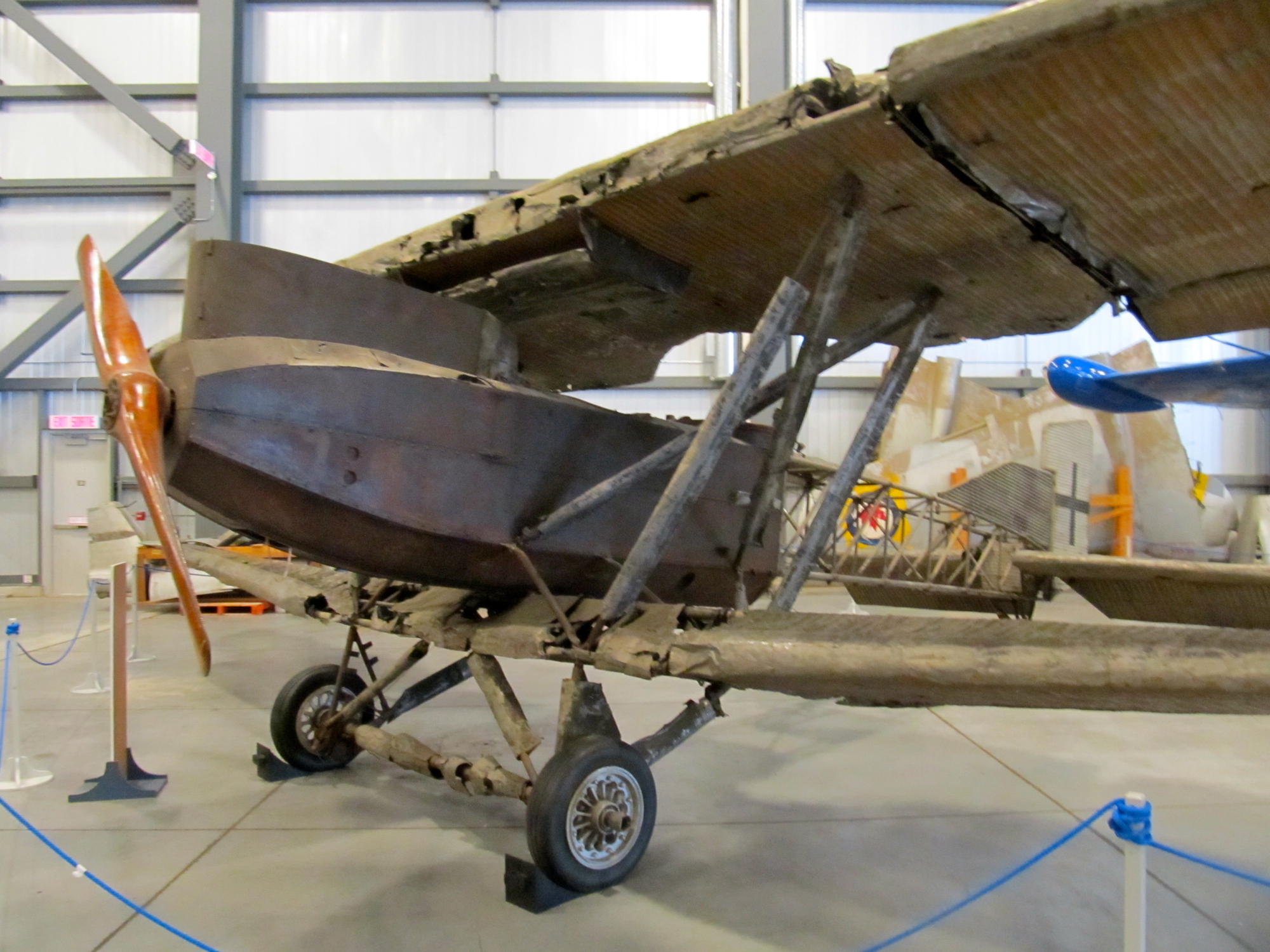 Heinkel Junkers J.I at the Canadian Air and Space Museum, Ottawa.